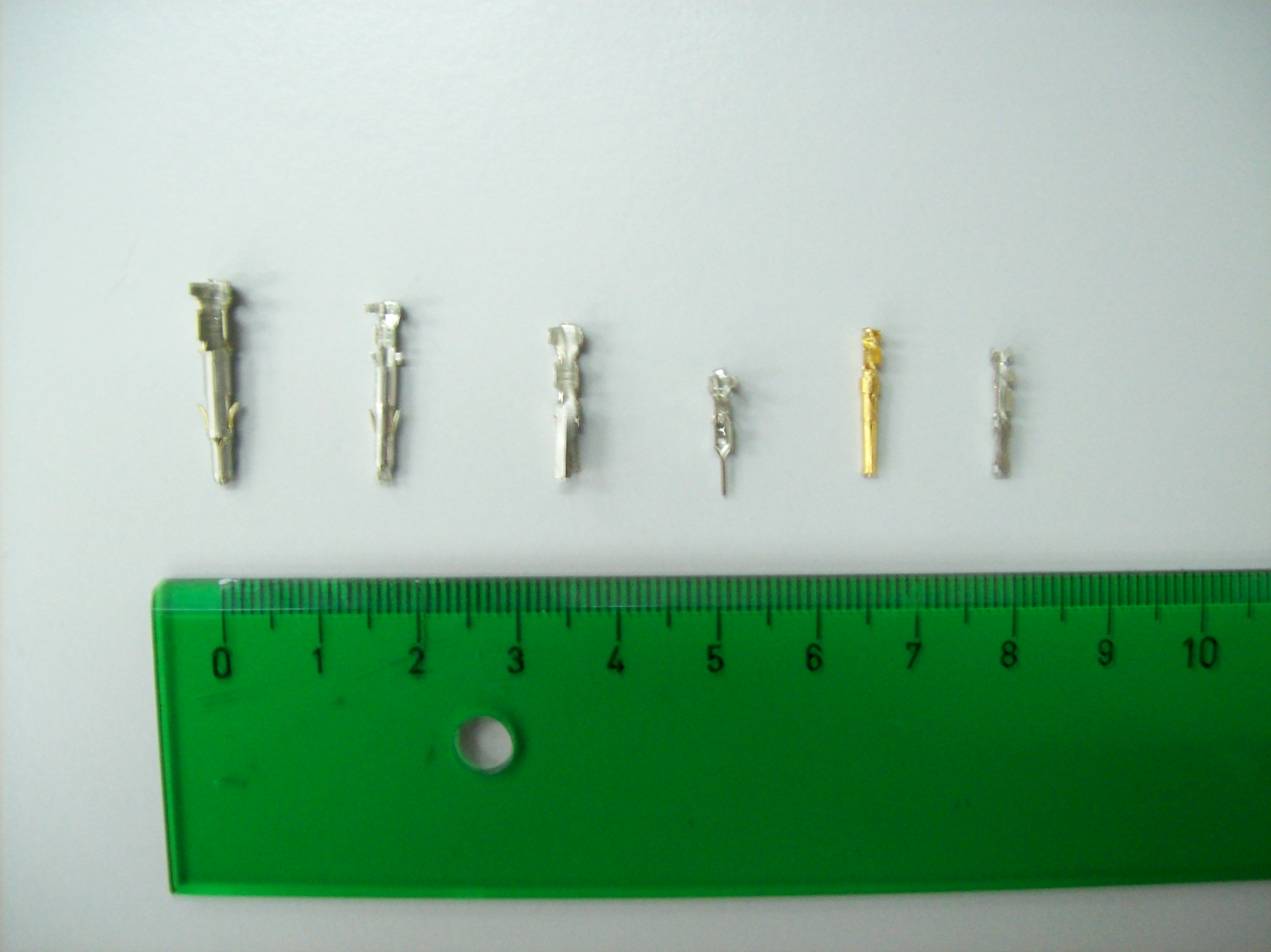 Electrical crimp connectors